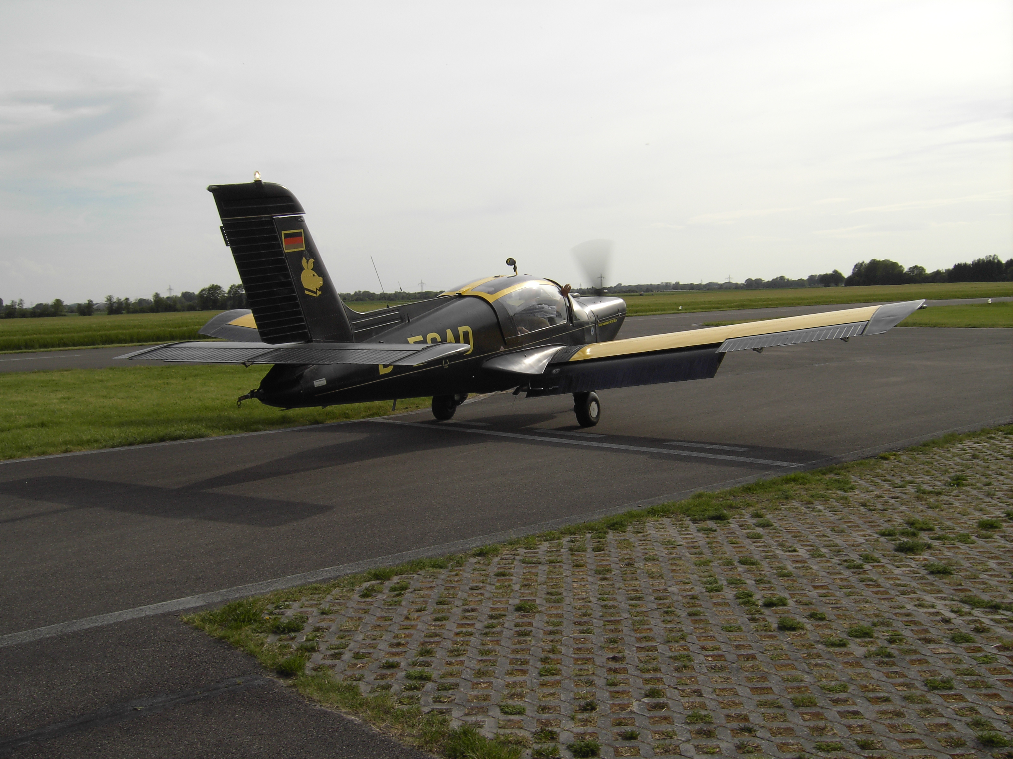 Morane MS893A on holding point runway 09 in EDMQ